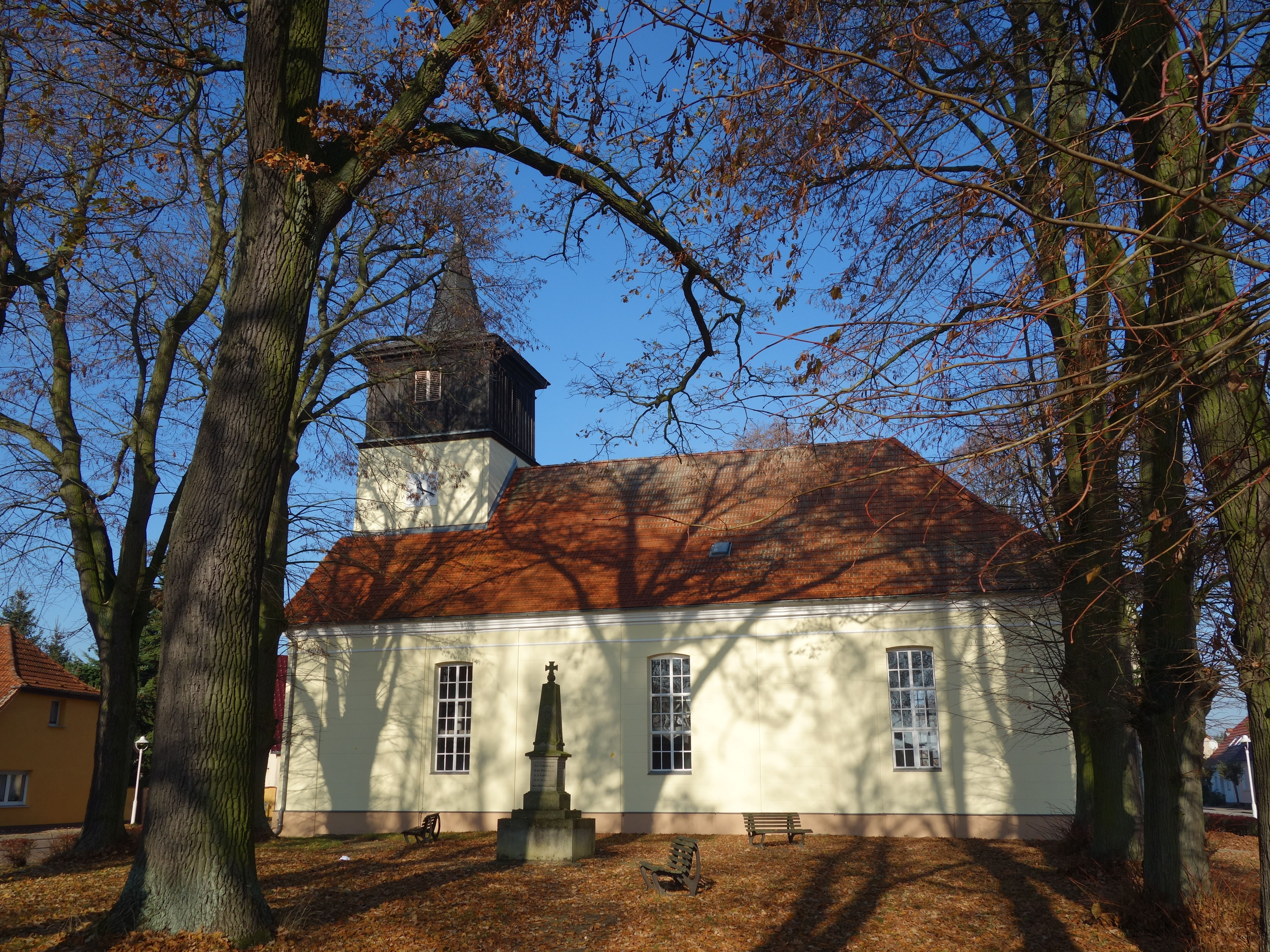 Southern view of church in Dreetz municipality, Ostprignitz-Ruppin district, Brandenburg state, Germany